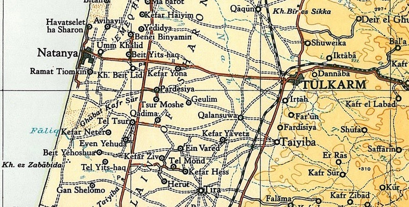 Tulkarm 1945 1:250,000